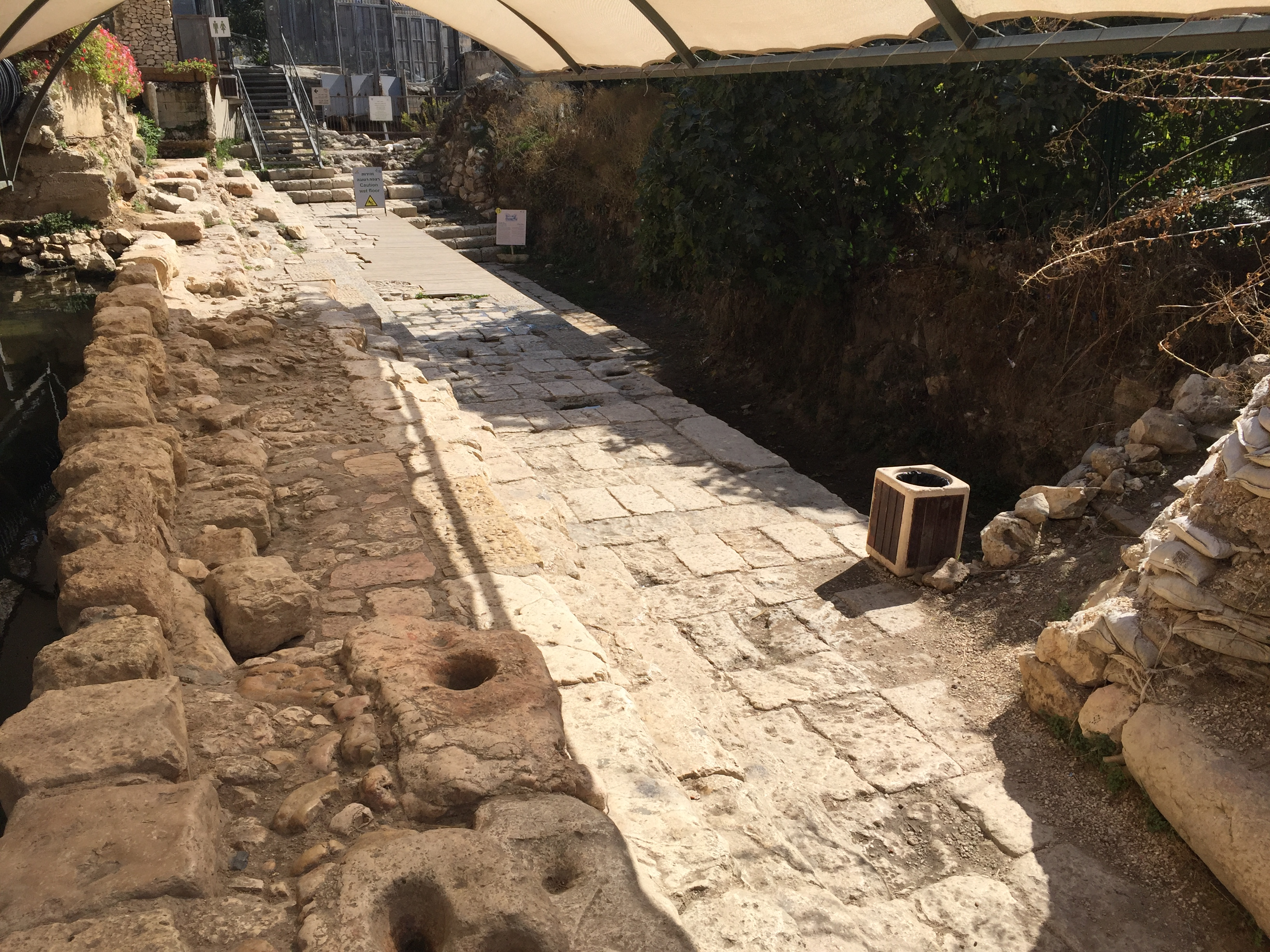 Remains of the Second Temple Pool of Siloam, in the City of David, Jerusalem.